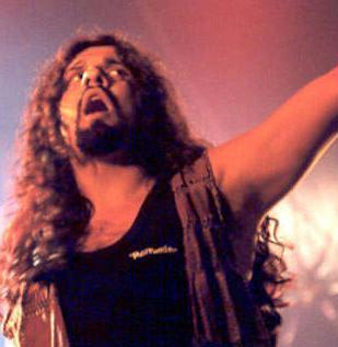 This is Jose Andrëa